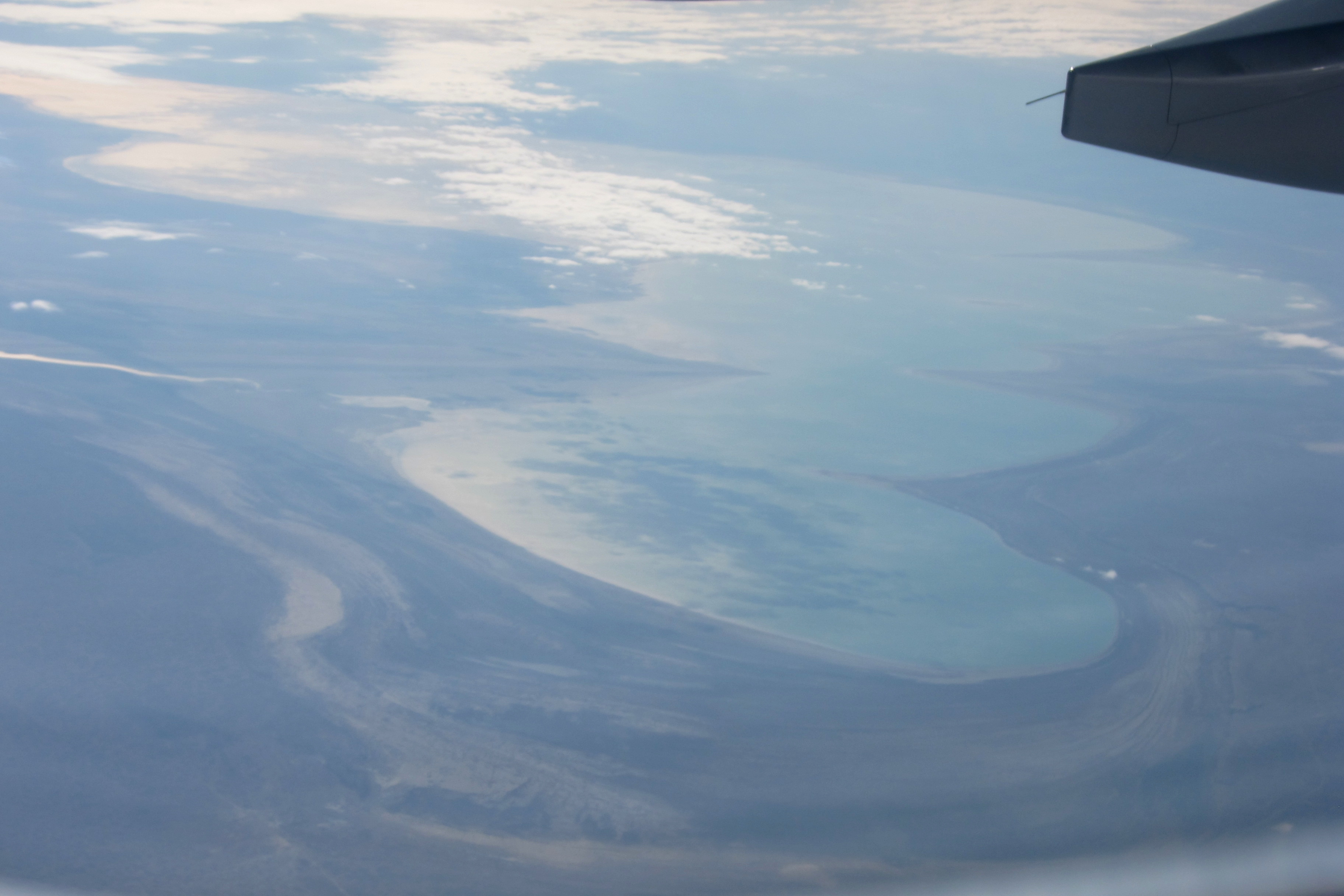 During Aeroflot flight SU291 from Hanoi to Moscow